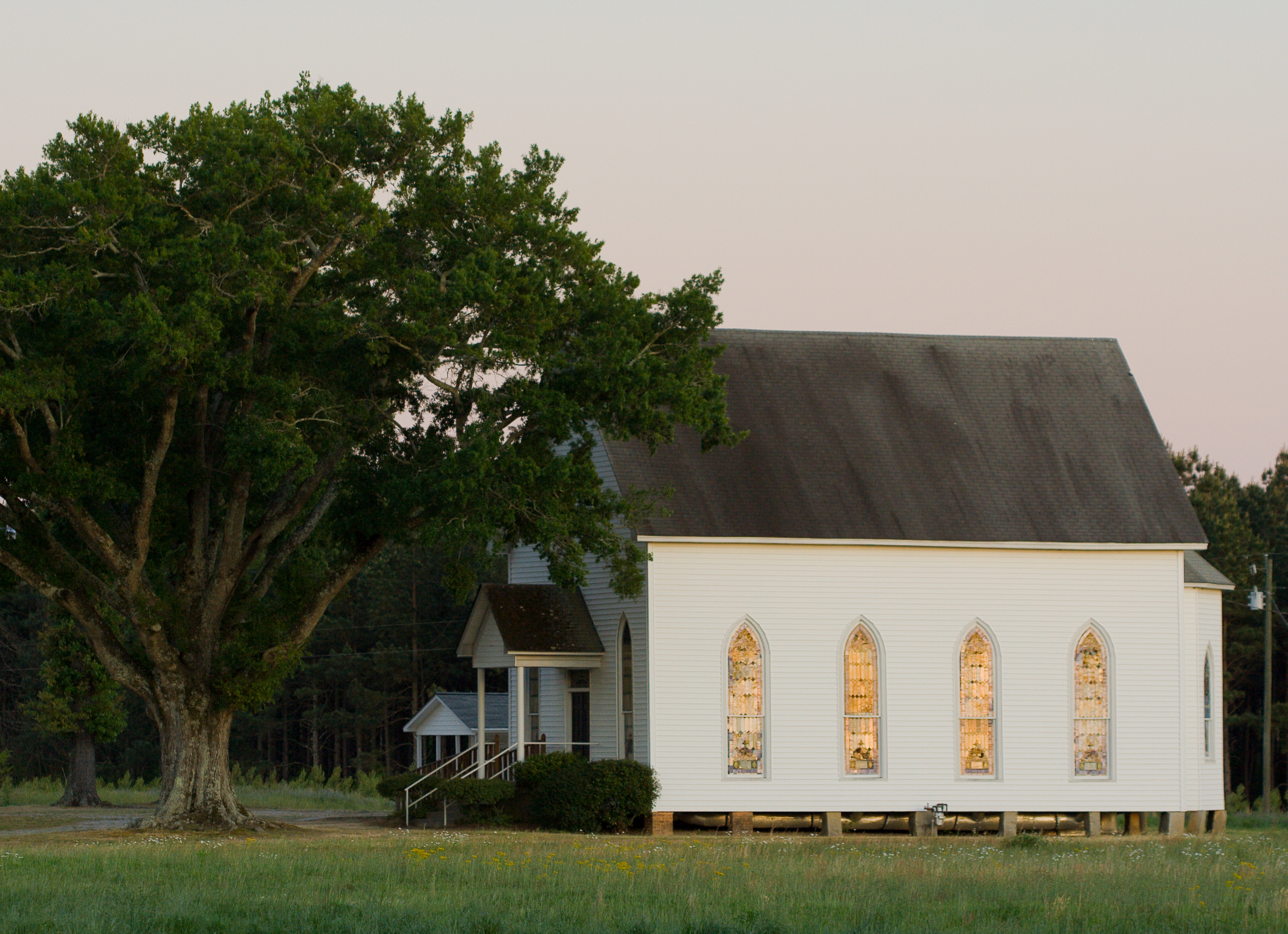 Saint Boniface Catholic Church, Joanna, South Carolina.